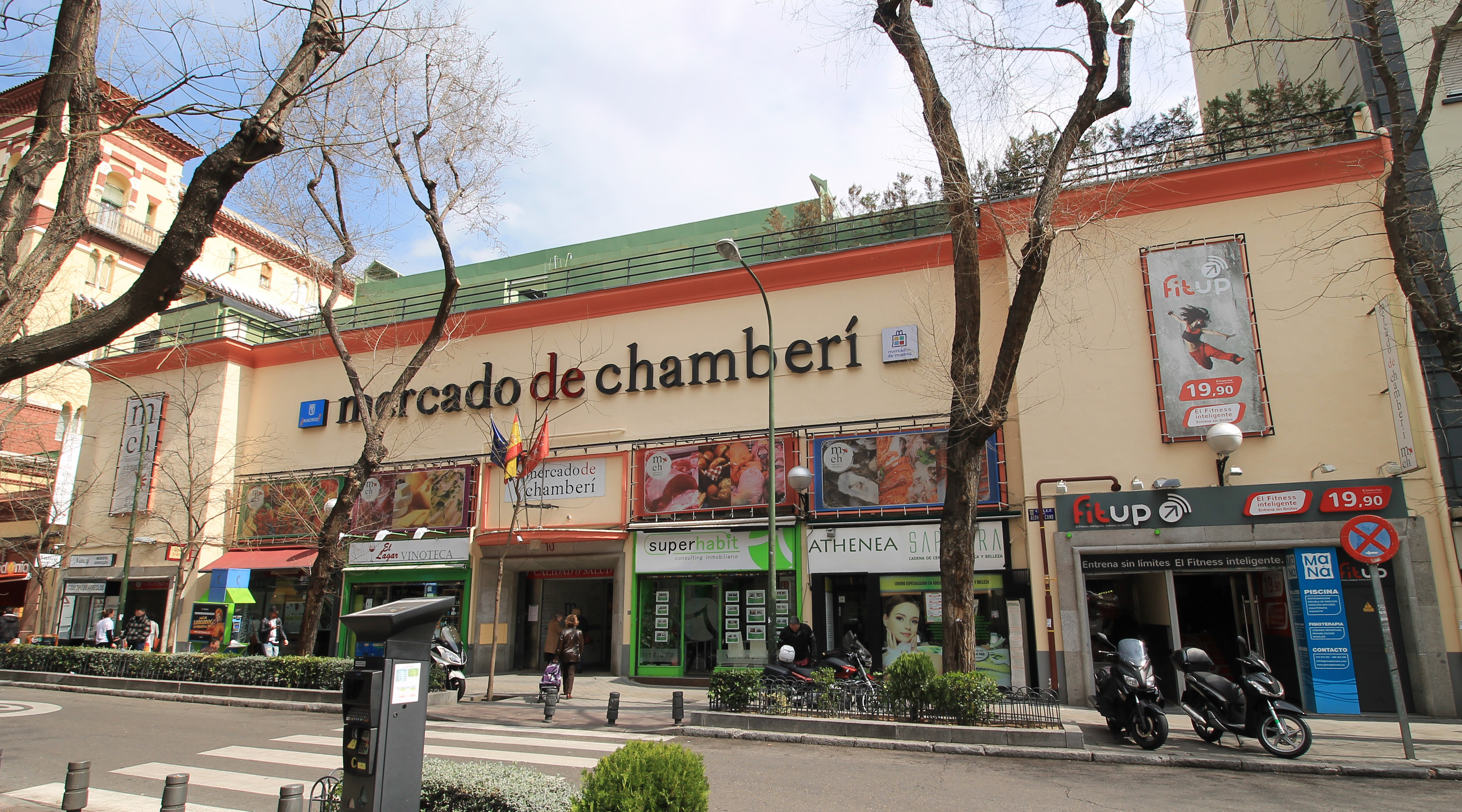 Façade of Mercado de Chamberí (a market hall) in Madrid (Spain).